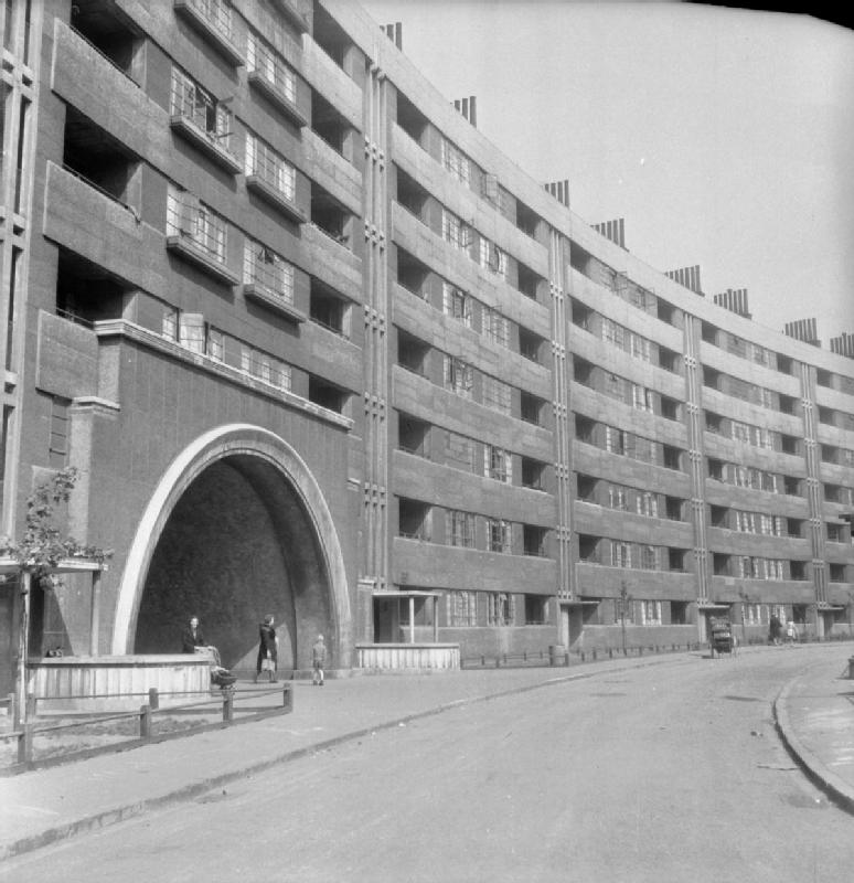 A Middle East Soldier Revisits Britain- Life in Wartime Leeds, England, UK, 1943 A mother and son walk home in the sunshine past the impressive archway entrance to a curving section of Quarry Hill flats in Leeds, the 8-storey building sweeping round to the right. According to the original caption, the flats had their own shopping centre and recreation grounds for the children. The building featured is probably Oastler House.